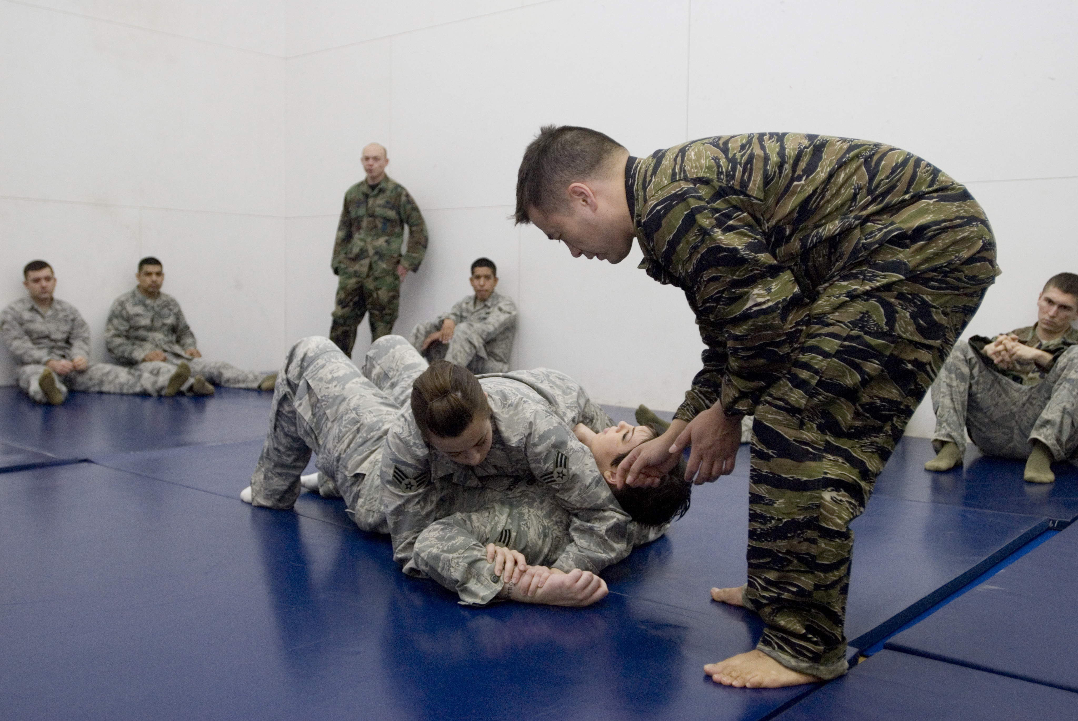 KUNSAN AIR BASE, Republic of Korea—Senior Airman Casaundra Soto performs an arm bar on Senior Airman Heather Bell, 8th Security Forces while Staff Sgt. Tony Fancher, 8th Operations Support Squadron, a survival evasion resistance and escape specialist coaches her through the moves during combatives training Jan. 27. The 8 Security Forces members’ will do 10 hours of combatives training based off the Army’s Modern Army Combatives Program to refresh on their basic ground fighting techniques. (U.S. Air Force photo/Senior Airman Jonathan Steffen)